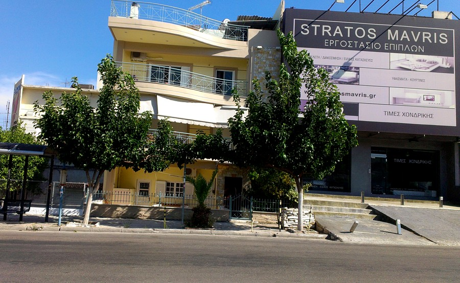 geitonia